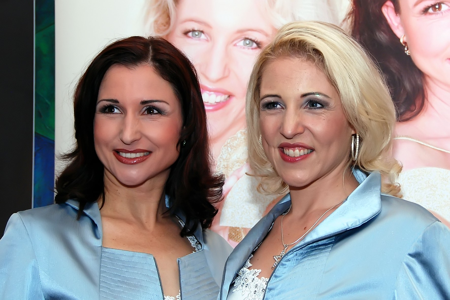 Geschwister Hofmann